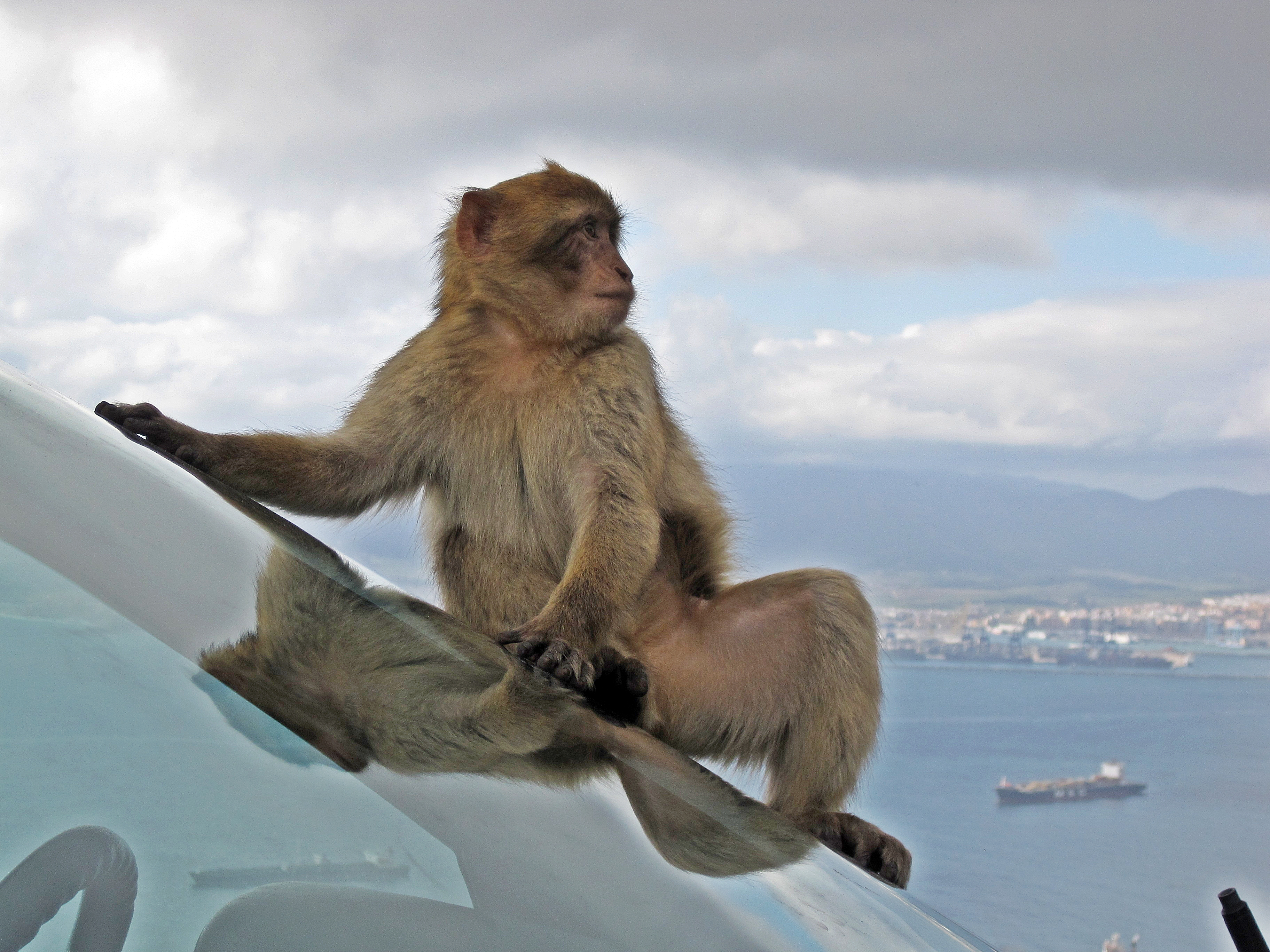 Macaca sylvanus (Barbary macaque), on the rock of Gibraltar